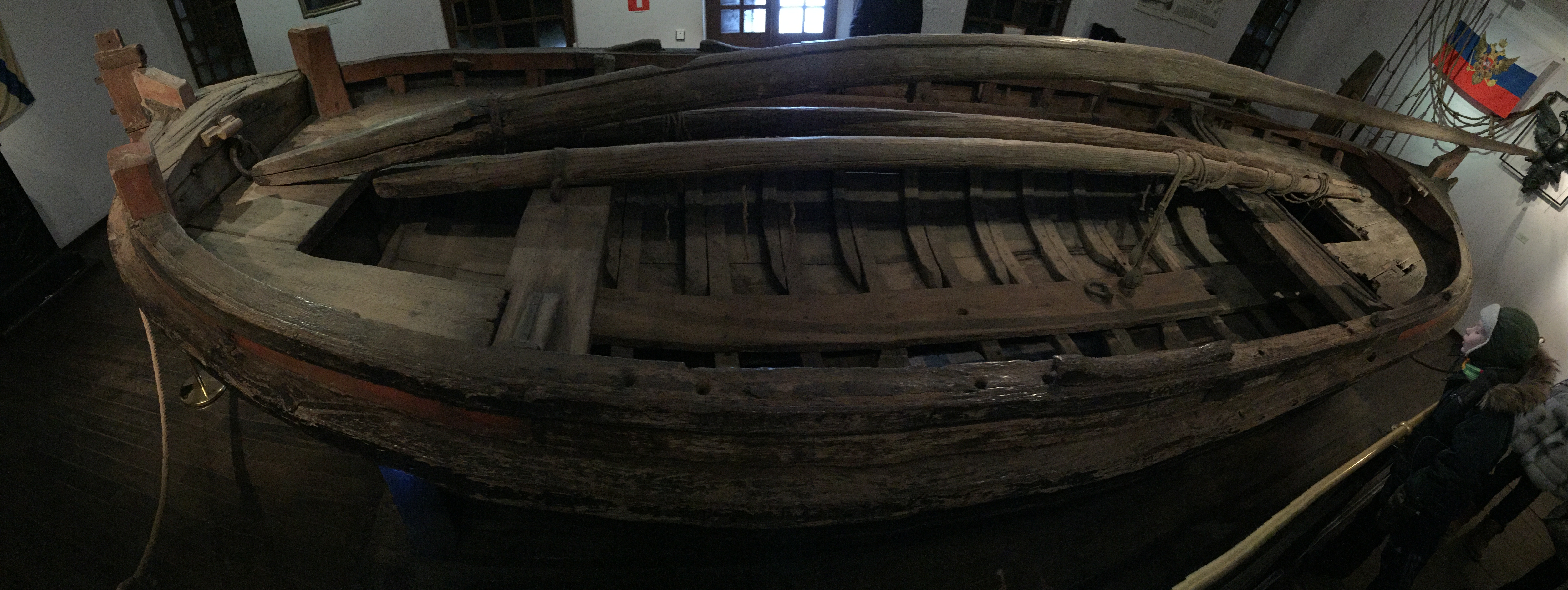 Boat of Peter I - Fortune